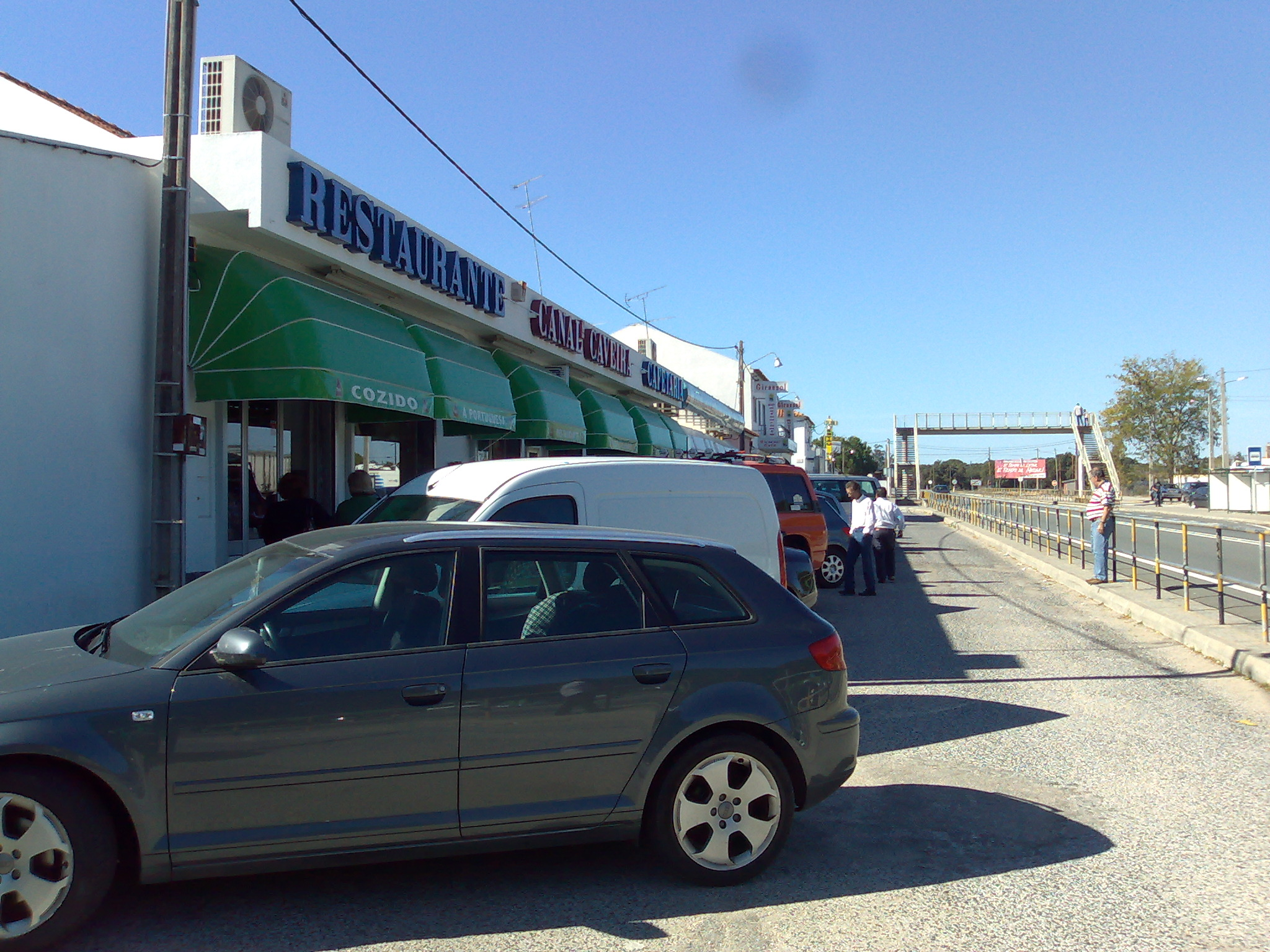 Restaurants in Canal Caveira